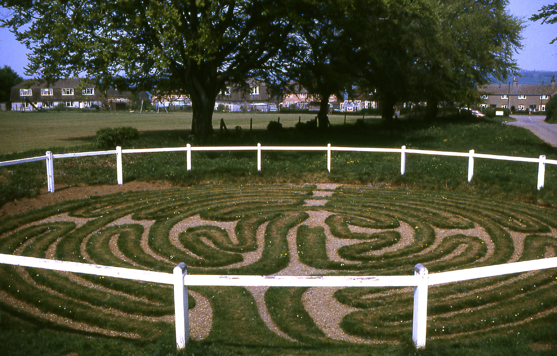 This is a scan from a transparency which I took in May 1976. It has been slightly cleaned-up in Photoshop. (The white dots in the grass are daisies!) It shows the roadside turf maze in Wing, Rutland, England. (Simon Garbutt, 8 Nov 2005) (This scan is in the Public Domain. I retain the ownership and copyright of the original transparency and any higher-resolution scans derived from it) SiGarb 18:58, 8 November 2005 (UTC)